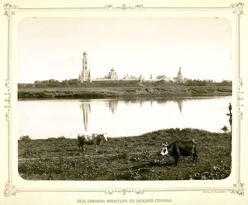 Simonov Monastery (Симонов монастырь) in Moscow)